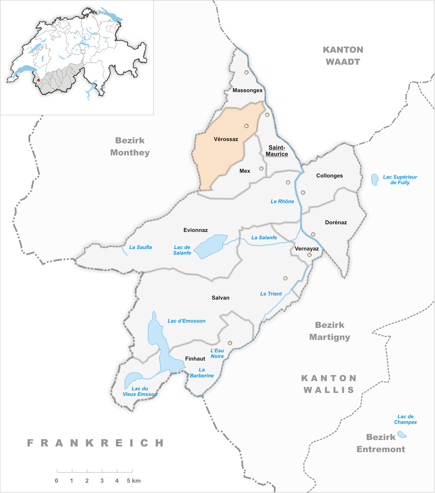 Municipality Vérossaz